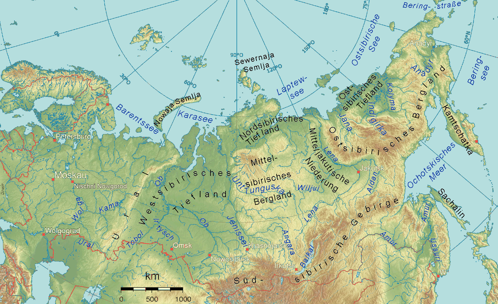 Physical map of almost all the Russian Federation emphasizing Siberia